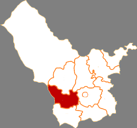 Locator map of Zhuozi County in Ulanqab City, Inner Mongolia, China